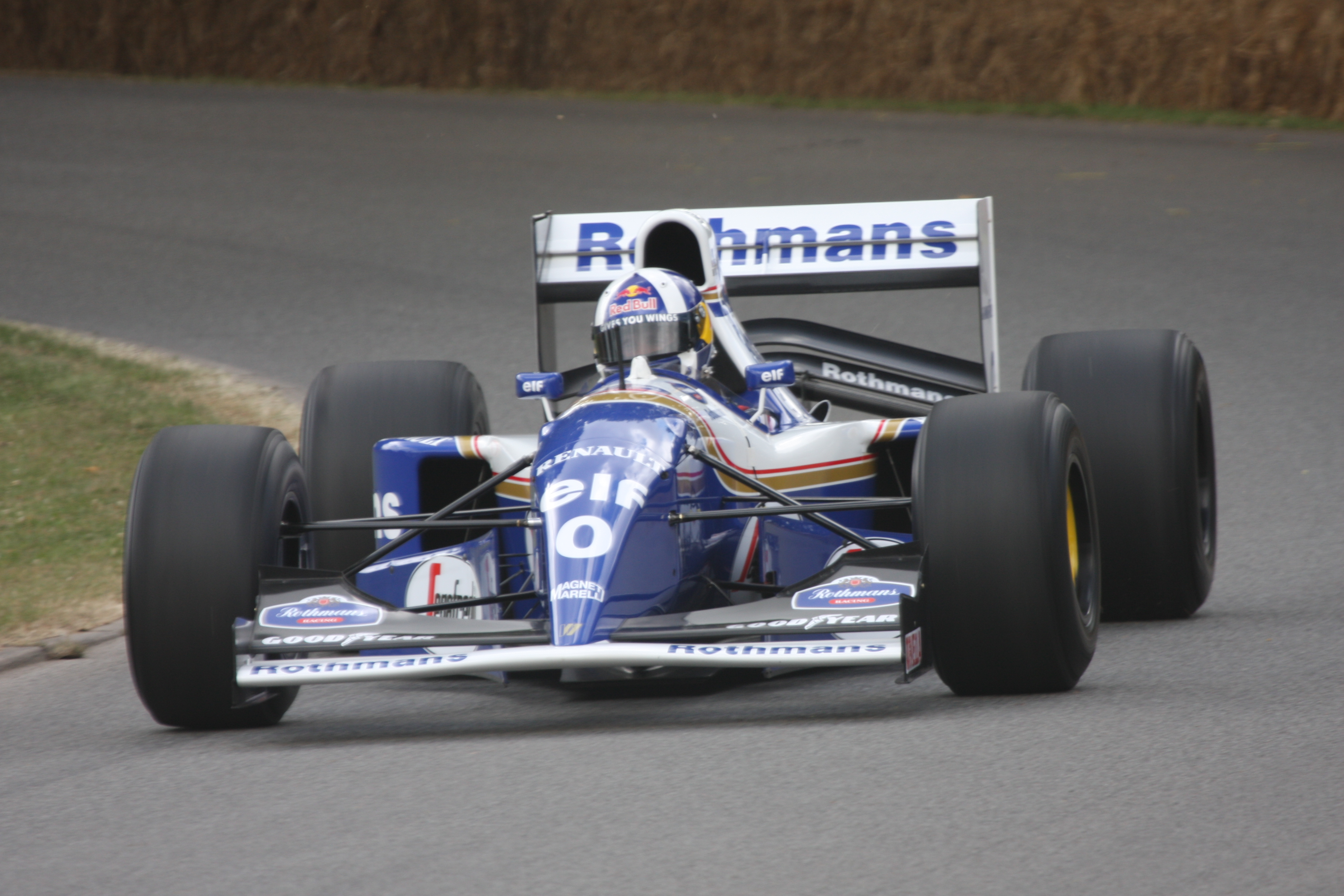 1994 Williams-Renault FW16B, driven by David Coulthard